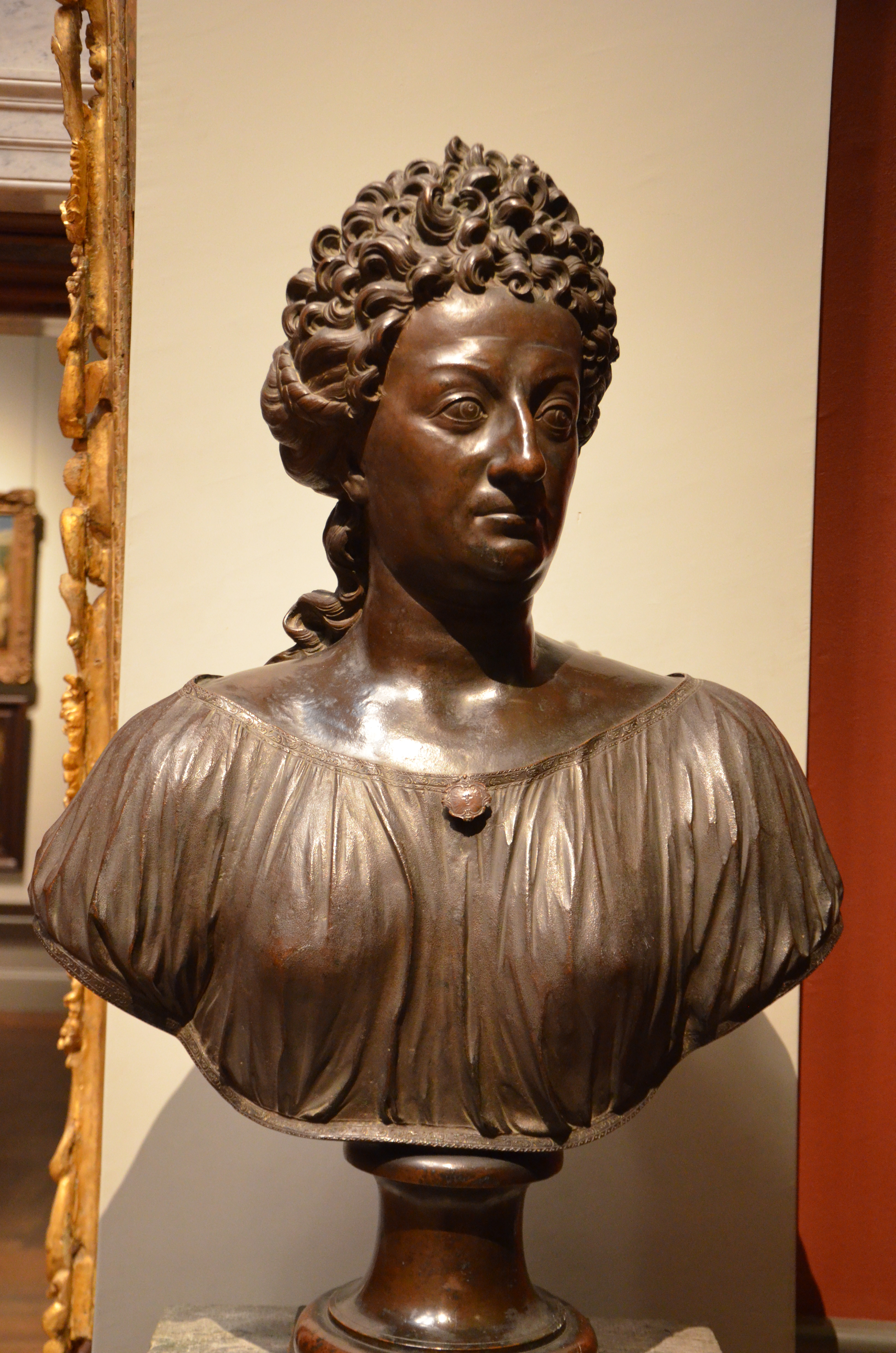 Kristina, Queen of Sweden by Jean-Baptiste Théodon, Nationalmuseum, Stockholm